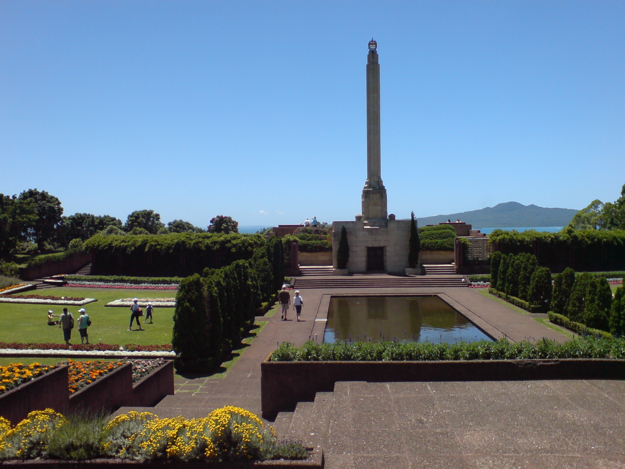 The Michael Joseph Savage Memorial (a former Prime Minister of New Zealand) near Bastion Point, Auckland, New Zealand. Looking north.